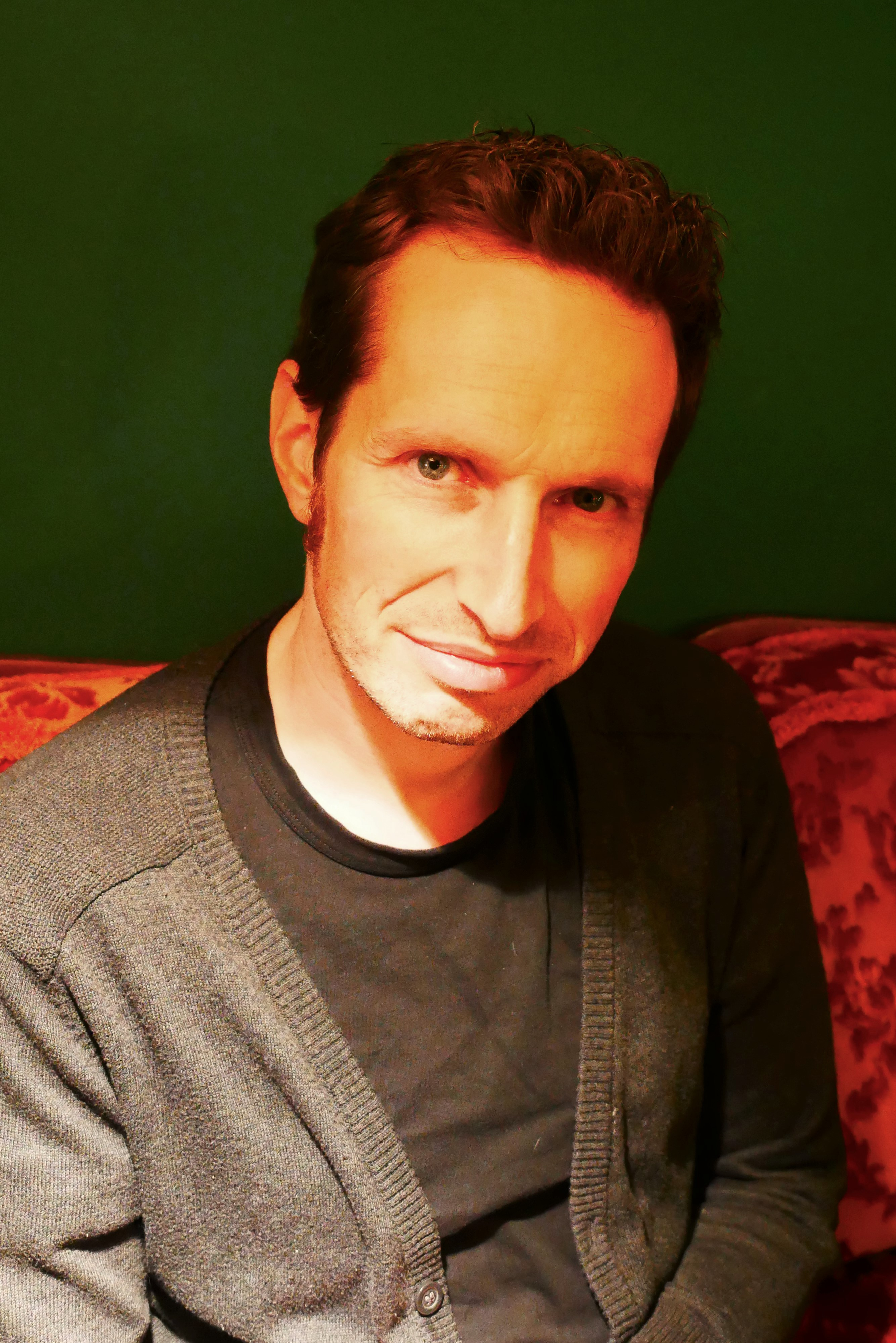 Taken in Frankfurt